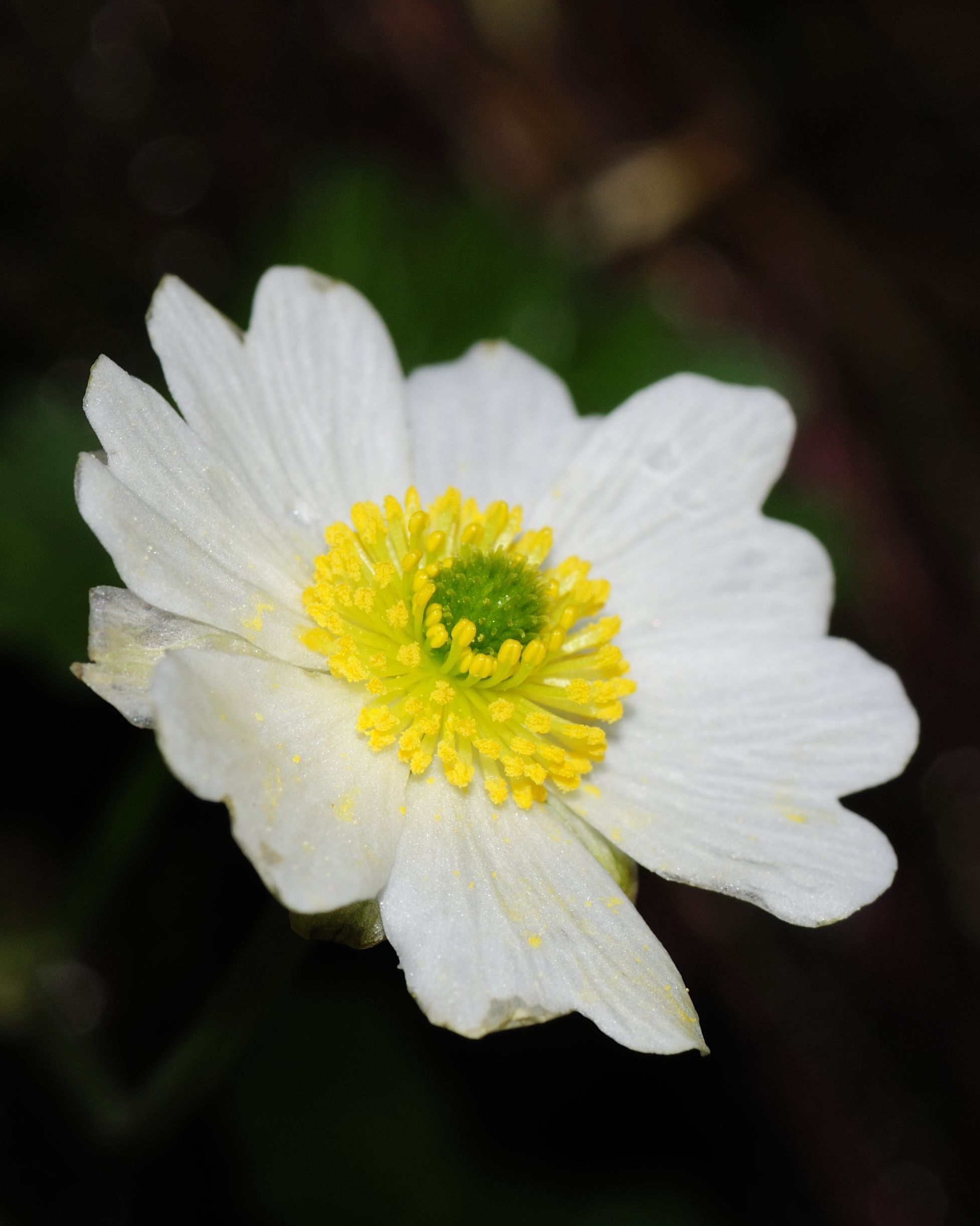 Please report references to .